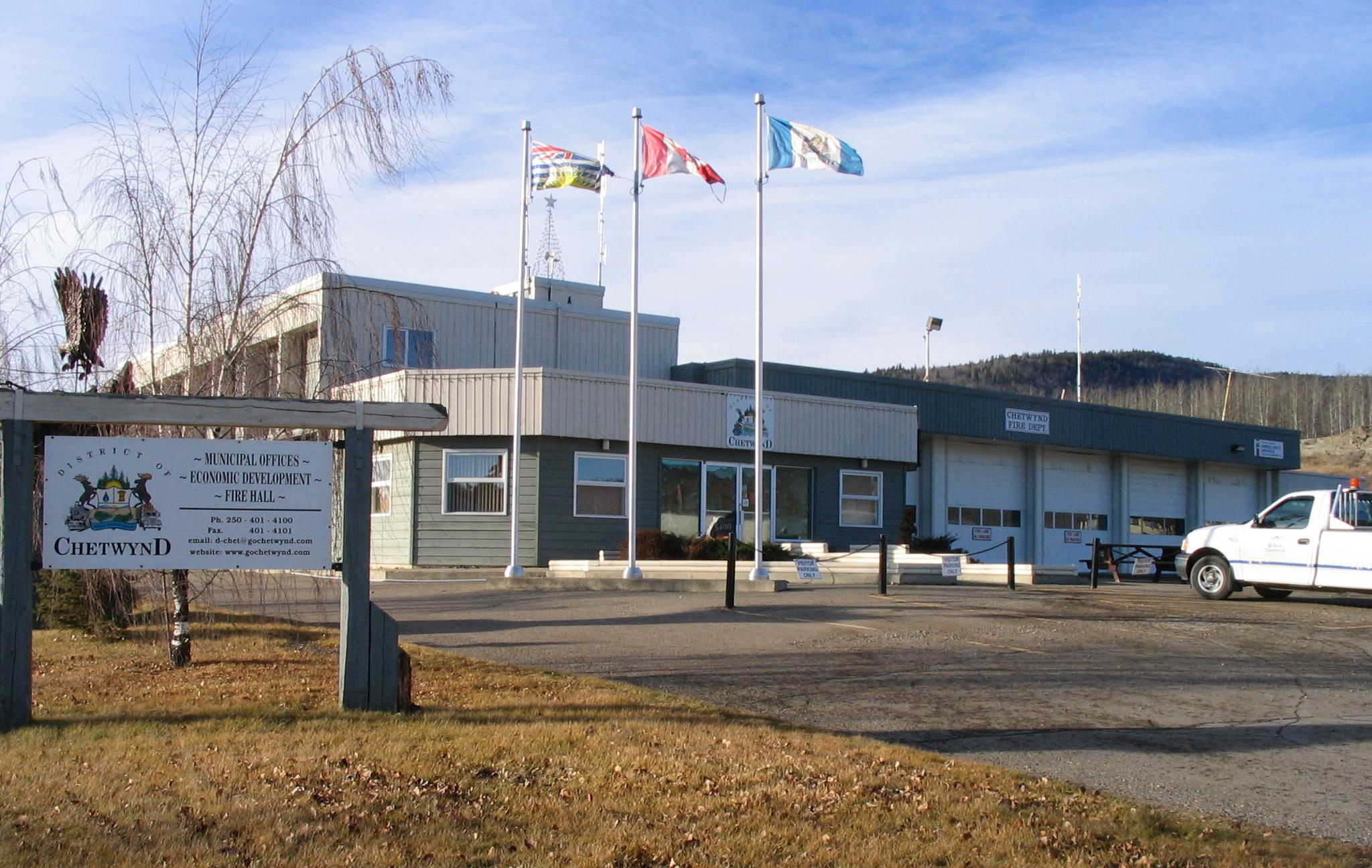 This image shows Chetwynd's town hall, which also acts as its economic development office, fire hall and ambulance bay. There is a chainsaw carving of an eagle on the sign. Photo taken by maclean25 in November 2005. Summary This image shows Chetwynd's town hall, which also acts as its economic development office, fire hall and ambulance bay. There is a chainsaw carving of an eagle on the sign. Photo taken by maclean25 in November 2005.